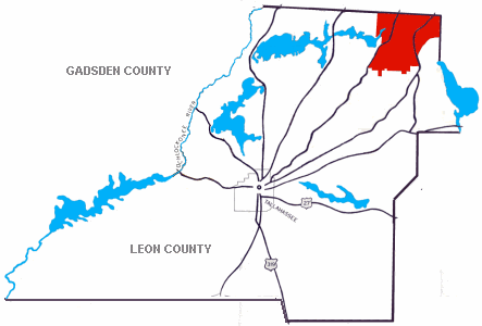 Map of Sunny Hill Plantation, made using sketches from a map in Clifton Paisley's From Cotton To Quail